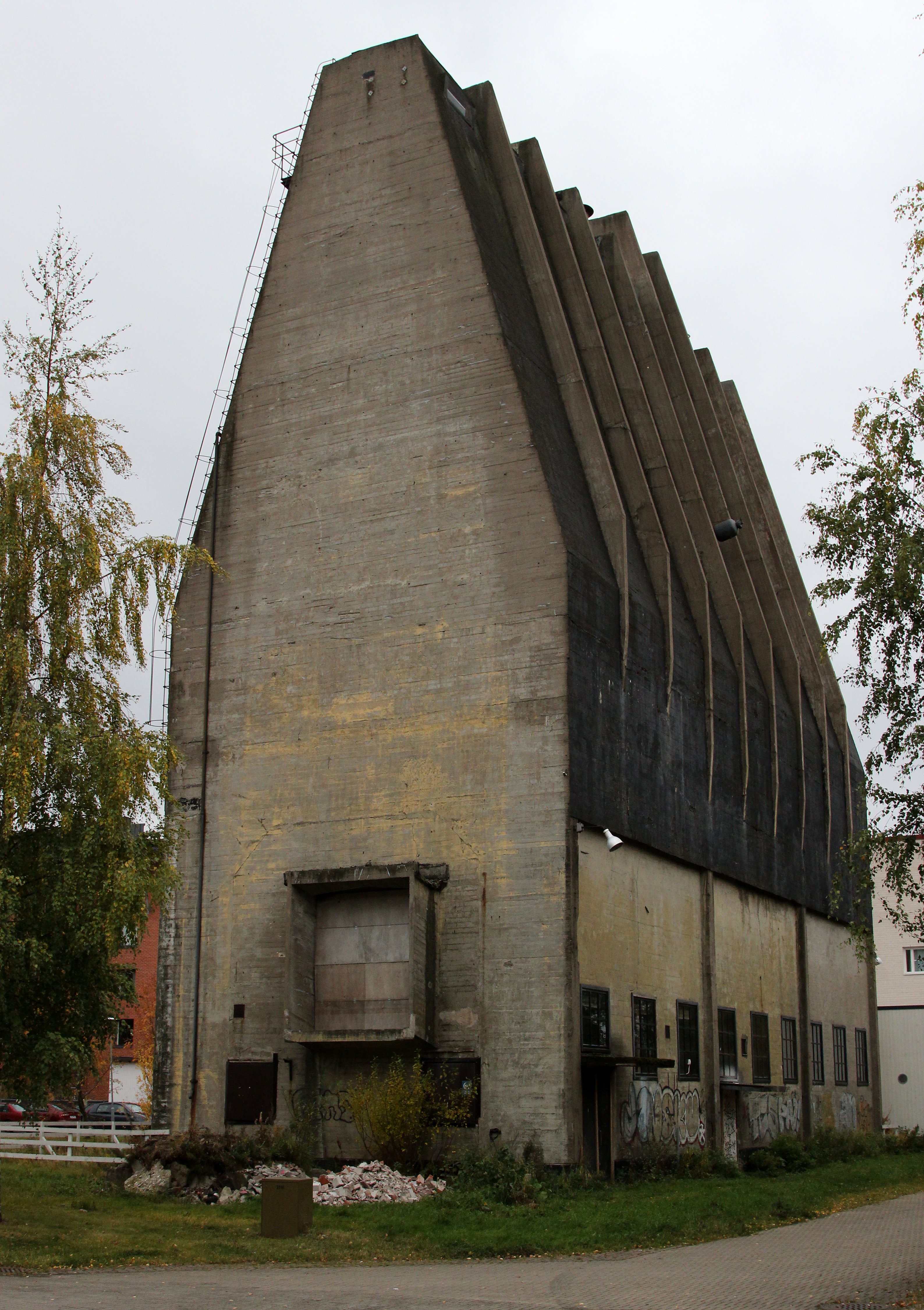 The former wood chip container of Toppila pulp mill in Oulu.